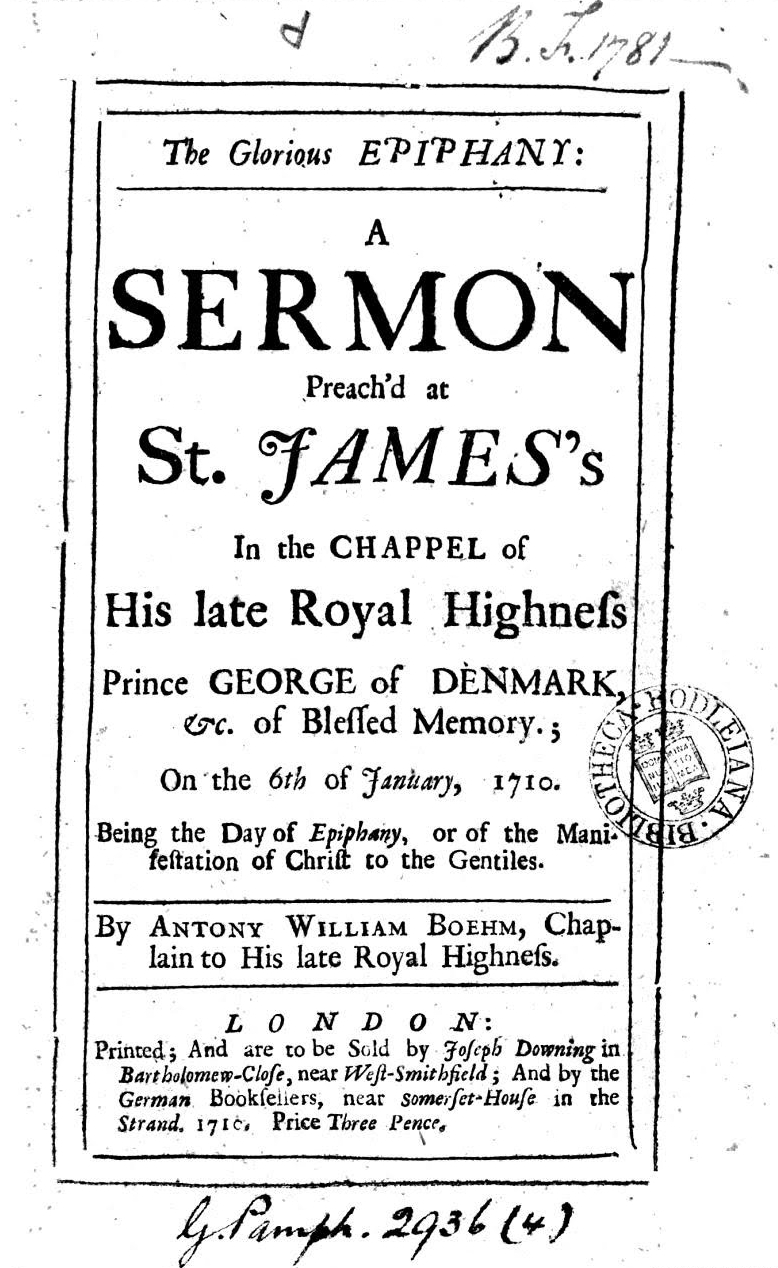 Title Page of the Sermon, "The Glorious Epiphany," preached by Anthony Boehm in the Royal German Chapel, St James Palace in 1710.